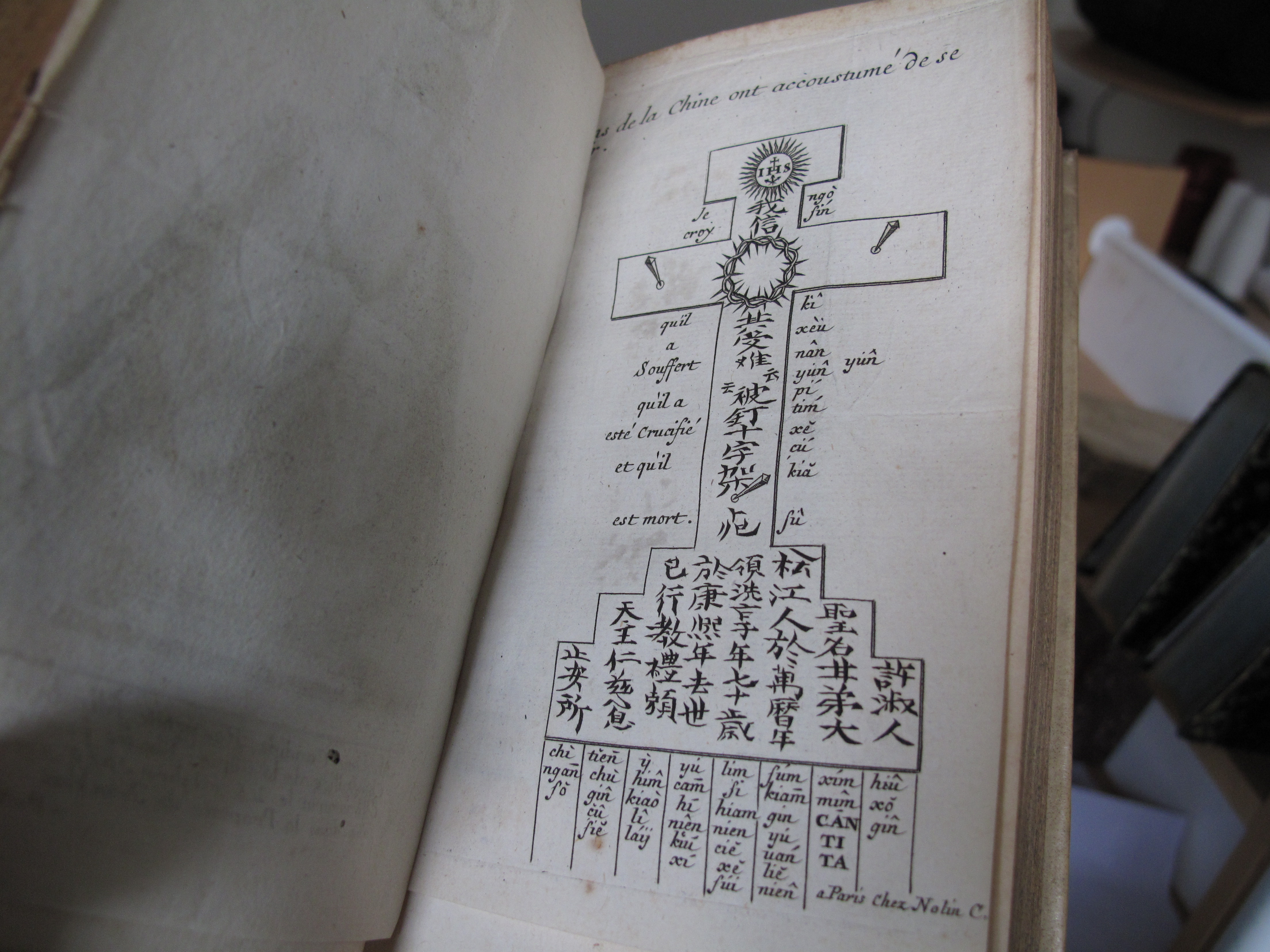 Illustration: Jesuit cross with Chinese characters; source unknown